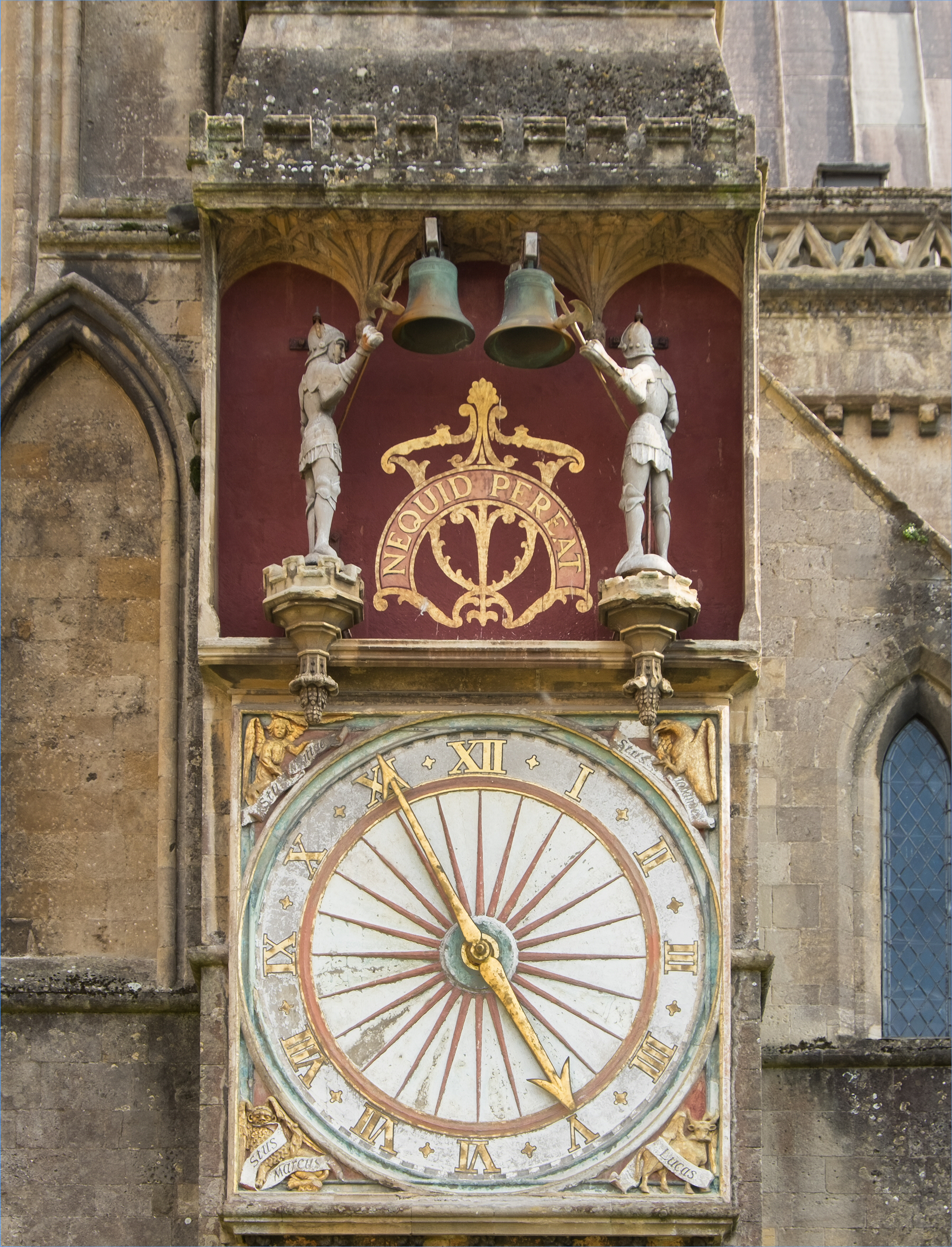 Wells Cathedral exterior clock, Somerset.